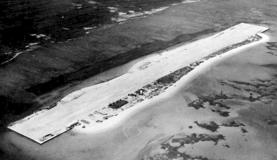 A 1961 NOAA aerial photo of French Frigate Shoals.